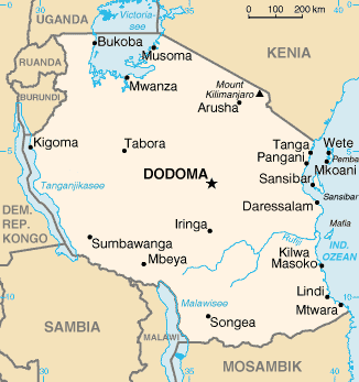 MAp of Tanzania with the right capital highlighted